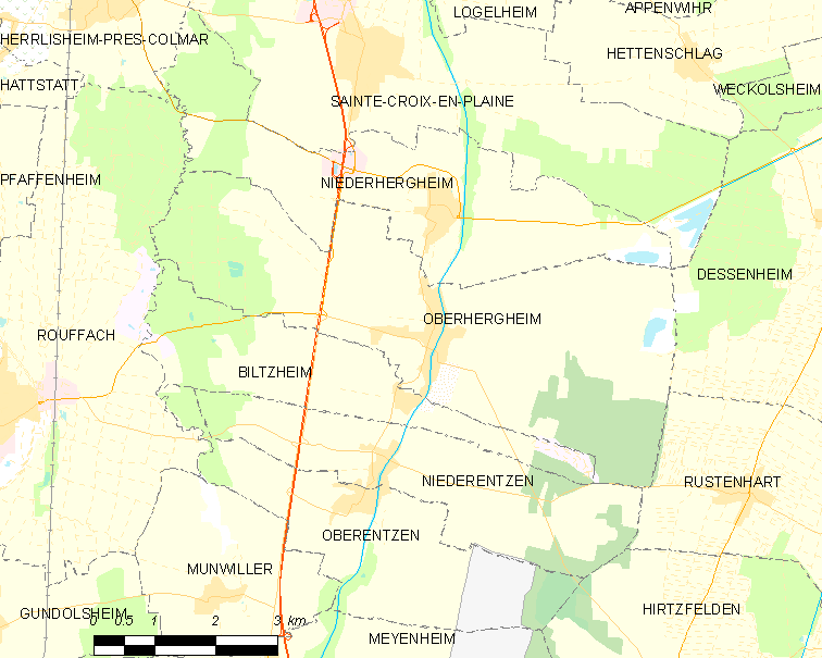 Map of French municipality